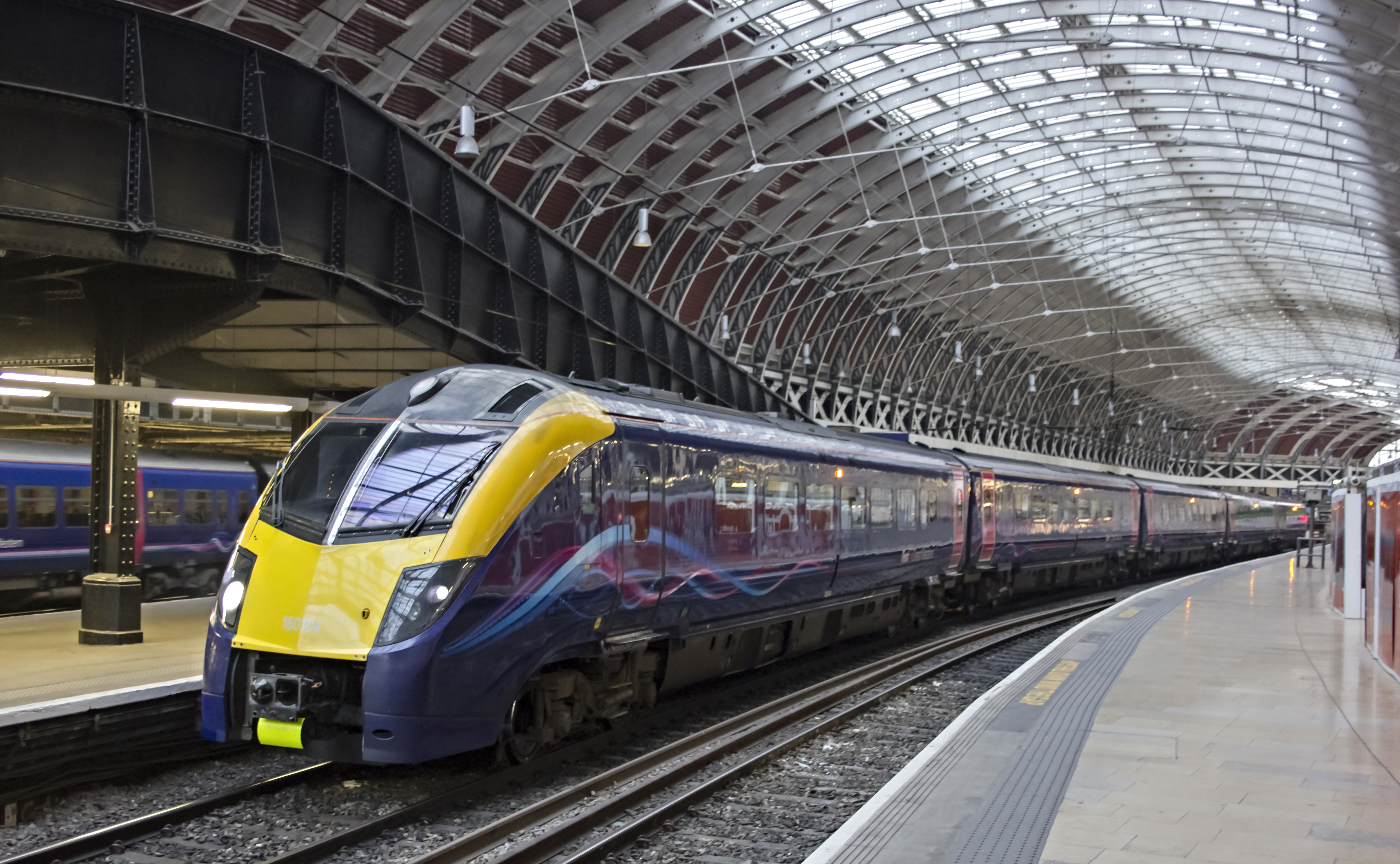 Great Western Railway Class 180 DMU 180104 stands at London Paddington's Platform 10 with the 1W45 1522 departure for Great Malvern on 6th January 2016. Now on their second stint with Great Western, the 180s still feel quite modern and sleek, and this member of the class certainly looked smart and clean from the outside.